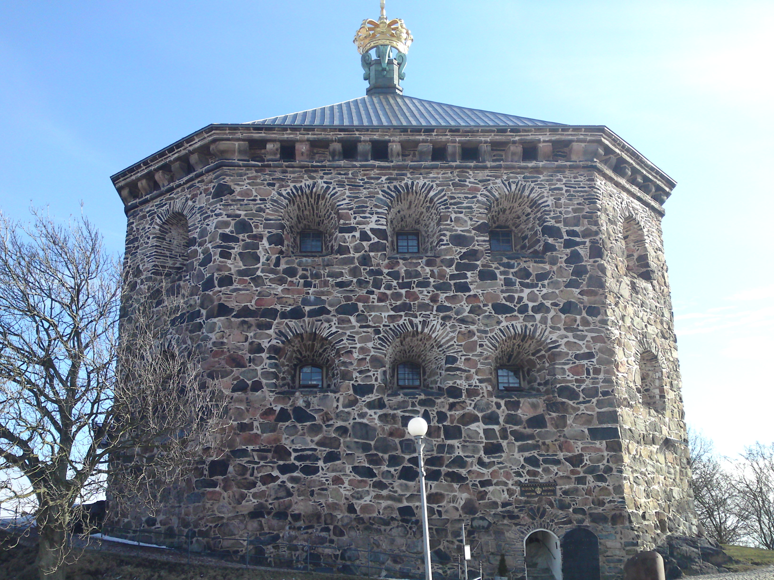 Kronan Gothenburg